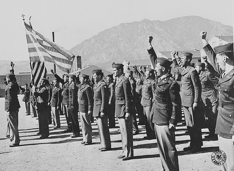 Camp Carson, Colorado. Greeks of the 122 Infantry batallion vow to avenge the invasion of their native lands. Created / Published 1943 Transfer; United States. Office of War Information. Overseas Picture Division. Washington Division; 1944 No known restrictions on images made by the U.S. government; For information, see U.S. Farm Security Administration/Office of War Information Black & White Photographs